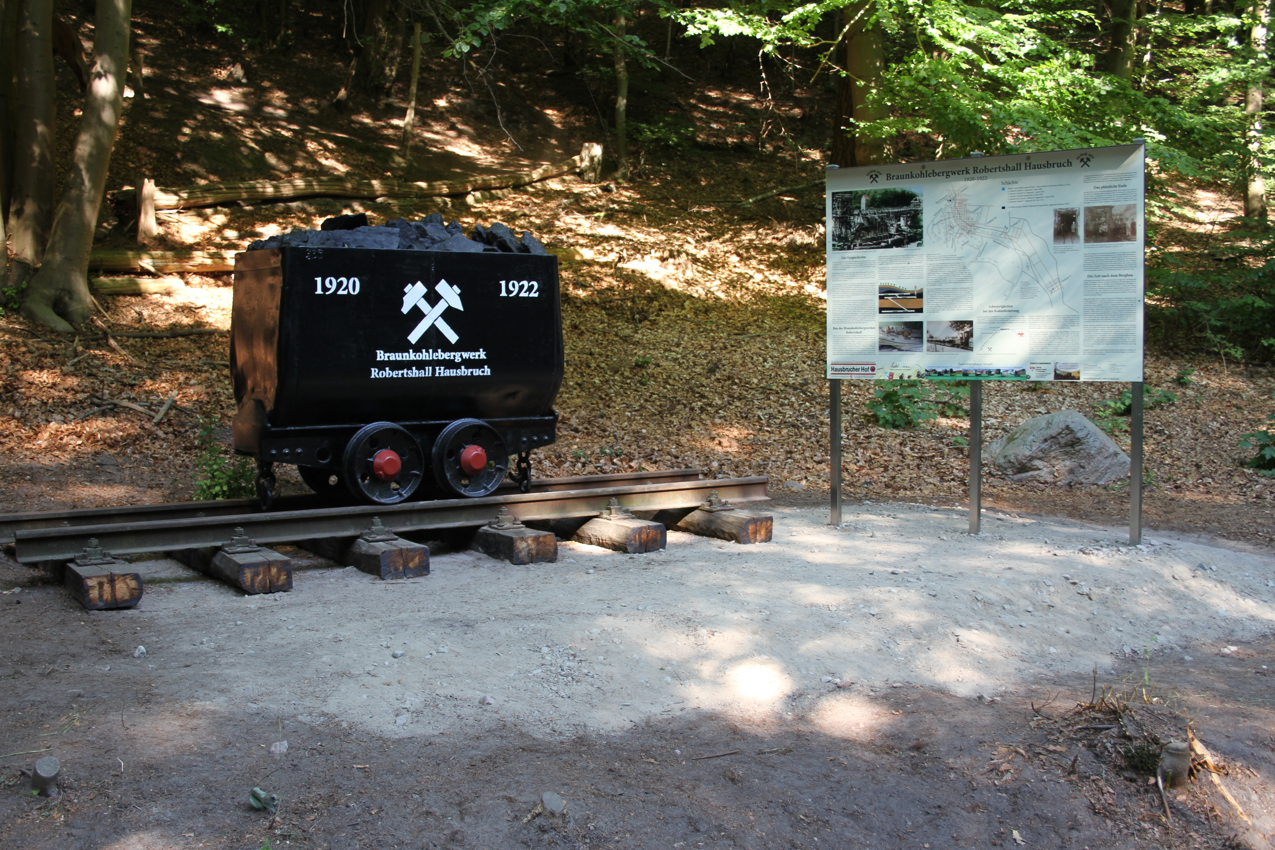 Mining cart on tracks as memorial to the former lignite mine Robertshall in Hamburg-Hausbruch, Germany, by Rolf Weiß.